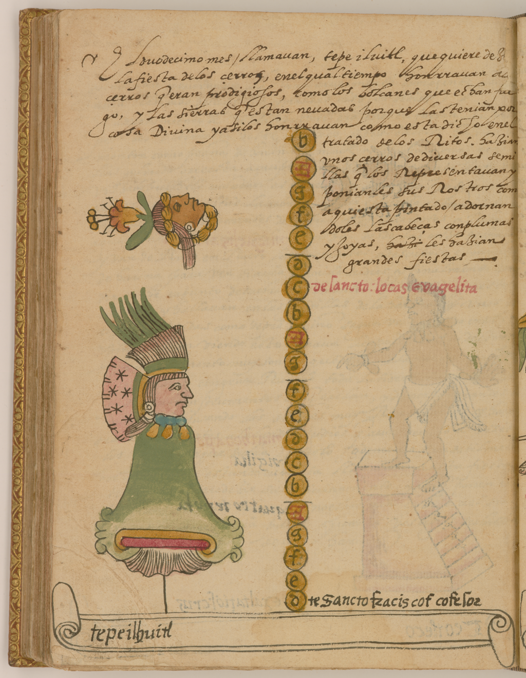 The Tovar Codex, attributed to the 16th-century Mexican Jesuit Juan de Tovar, contains detailed information about the rites and ceremonies of the Aztecs (also known as Mexica). The codex is illustrated with 51 full-page paintings in watercolor. Strongly influenced by pre-contact pictographic manuscripts, the paintings are of exceptional artistic quality. The manuscript is divided into three sections. The first section is a history of the travels of the Aztecs prior to the arrival of the Spanish. The second section is an illustrated history of the Aztecs. The third section contains the Tovar calendar, which records a continuous Aztec calendar with months, weeks, days, dominical letters, and church festivals of a Christian 365-day year. In this illustration, from the third section, a woman's head is shown upon the sign for a mountain. The head wears a headdress with green feathers and a necklace with blue beads and gold pendants. Above it is a recumbent head of a woman which is topped by a large flower and circled by golden feathers. The text describes the ceremonies honoring the hills, in which representations of hills are adorned with faces. This month, identified as that of Luke the Evangelist, is called Tepeilhuitl (Festival of the Hills). This month was dedicated to Tlaloc, the god of rain, but the headdress of the head upon the mountain resembles that of Xochiquetzal (Flower Feather), goddess of the earth, love, artists, pregnant women, and the moon, who is sometimes named the wife of Tlaloc. The recumbent head above her with its flower may also allude to Xochiquetzal. Aztec calendar; Aztec gods; Aztecs; Calendars; Codex; Indians of Mexico; Indigenous peoples; Mesoamerica; Tovar Codex